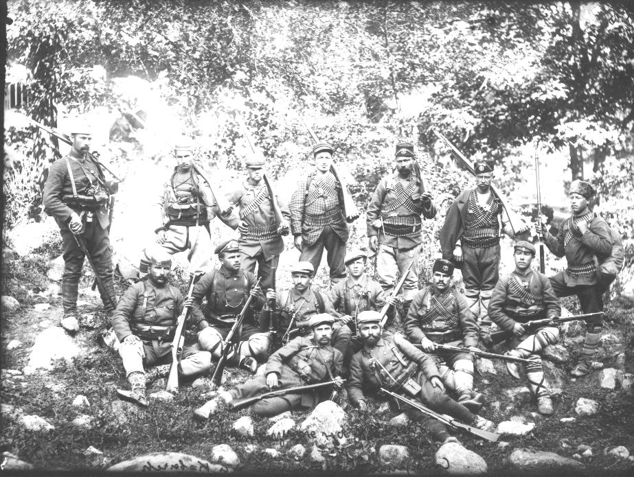 Cheta of bulgarian revolutionary Vladislav Kovachev from SMAC in 1903